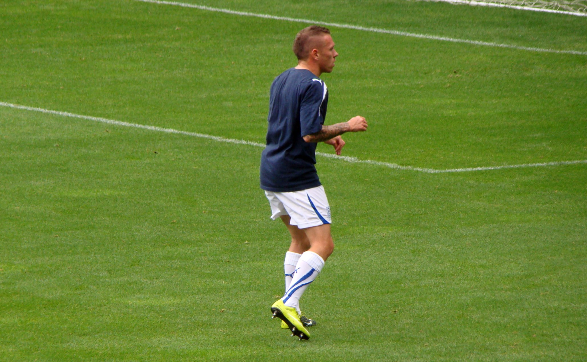 Craig Bellamy warming up before his match with Cardiff City. 21/08/10 Cardiff v Doncaster, Championship, Cardiff City Stadium, Cardiff, Wales